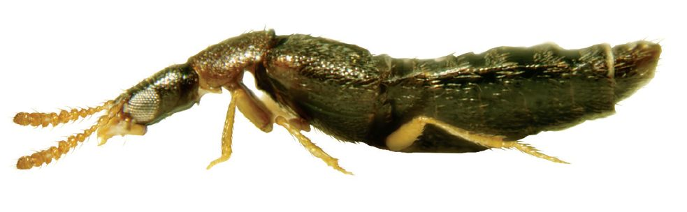 Lateral view of Gyrophaena (Phaenogyra) gracilis.